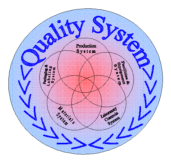 US Government instruction manual on Quality Systems; free content.